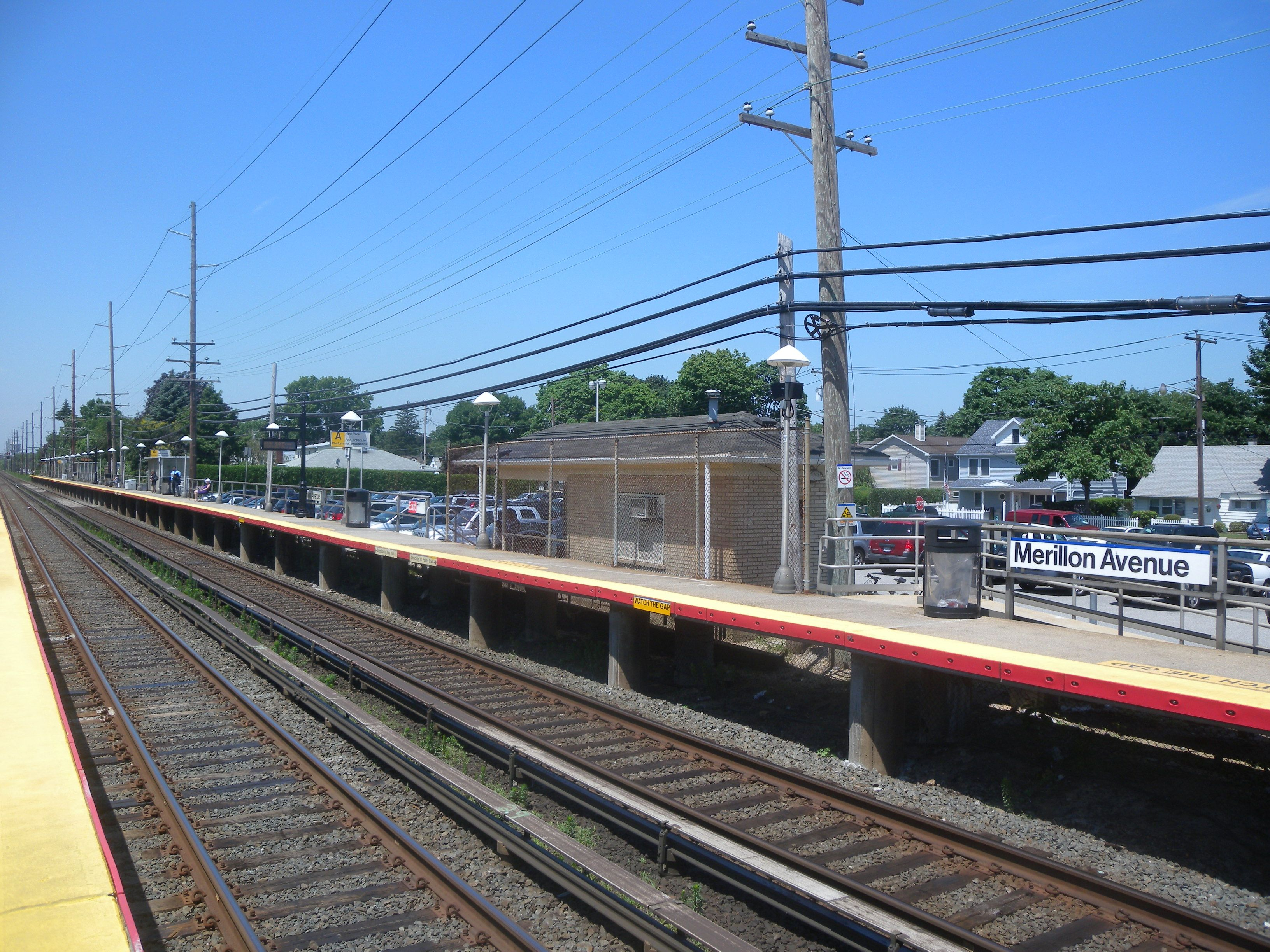 Looking northwest at westbound platform of Merillon Avenue station, on a sunny midday.